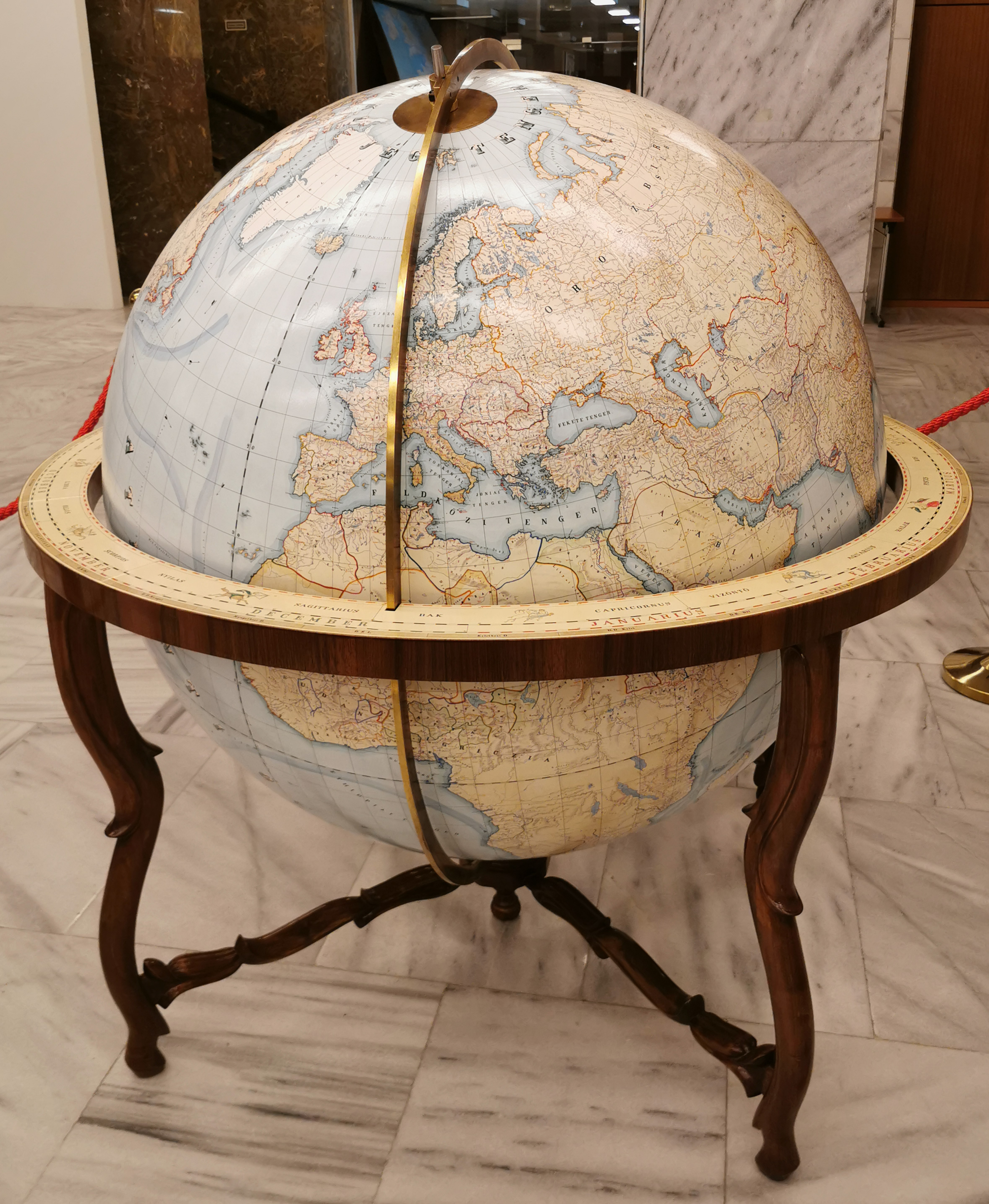 Perczel földgömbje (1862) az Országos Széchenyi Könyvtárban